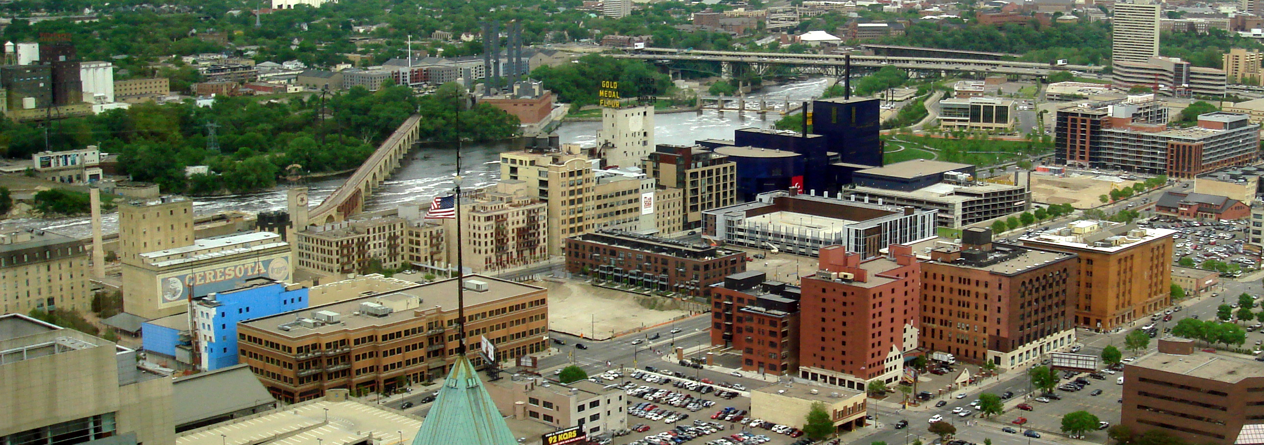 The Mill District, dominated by the blue Guthrie Theater, in Downtown East, Minneapolis, Minnesota